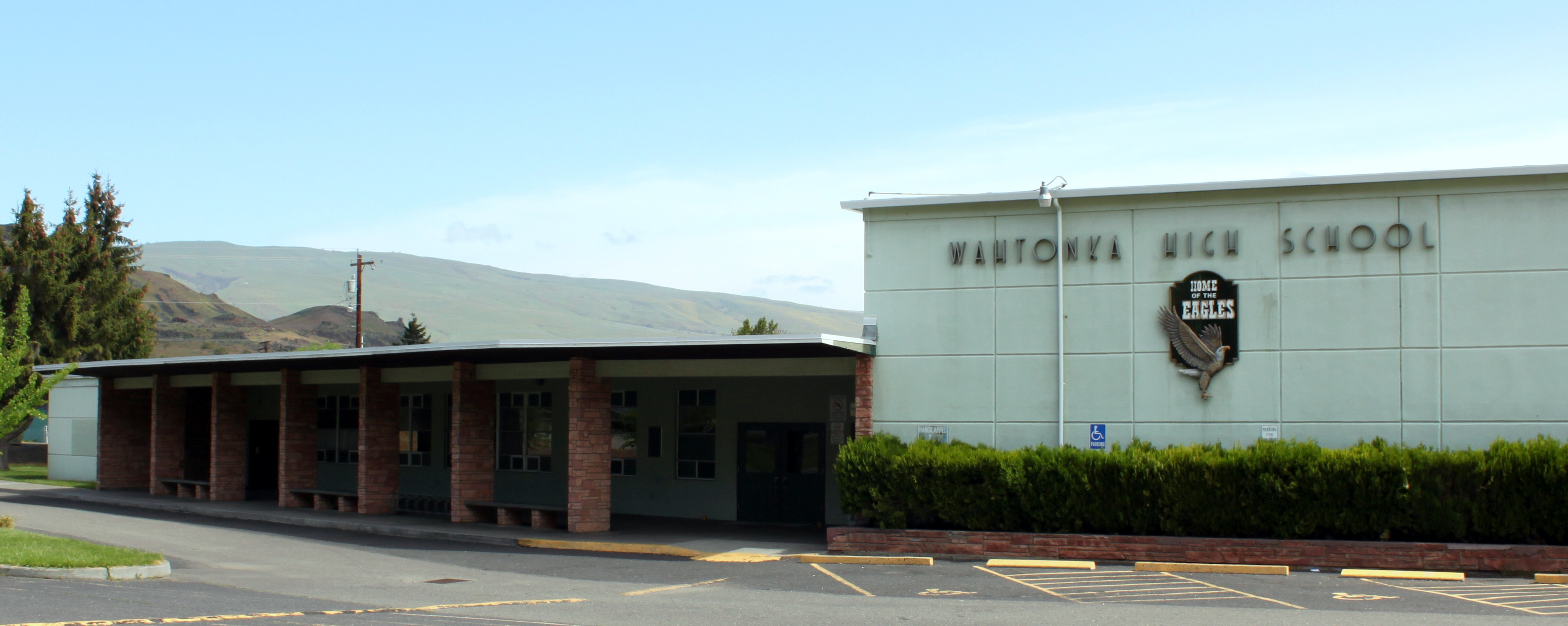 Wahtonka High School in Chenoweth, Oregon, a suburb of The Dalles, Oregon, west campus.